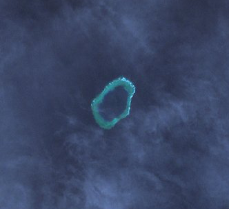 Bombay Shoal is an atoll of Spratly Islands.